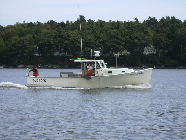 A traditional Maine Lobster Boat, as seen in Casco Bay, near Peaks Island. Photo taken by myself, summer 2006.